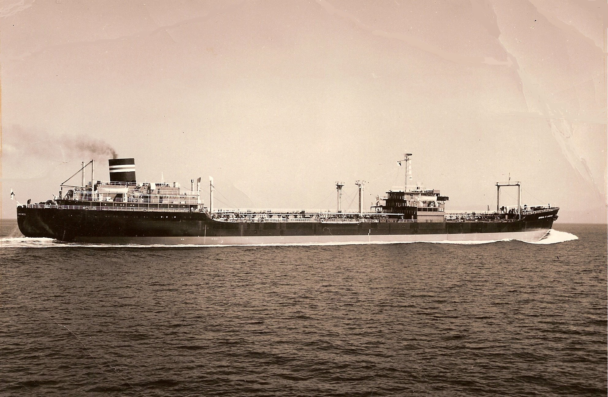 Imperial St-Lawrence